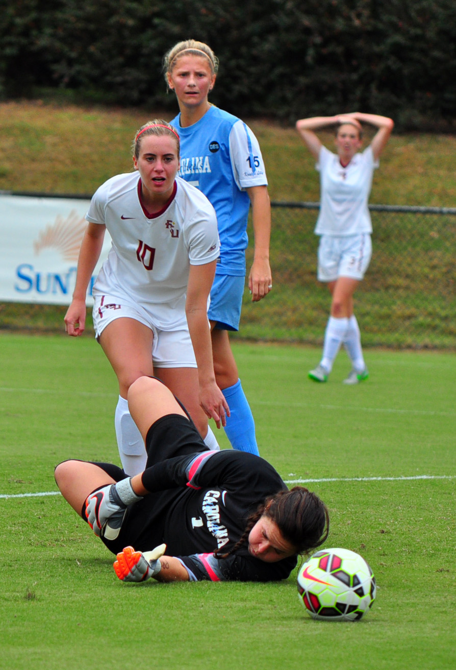 Bergie Nearly Scores in First Half